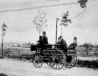 First Trolleybuss of Siemens in Berlin, Germany.